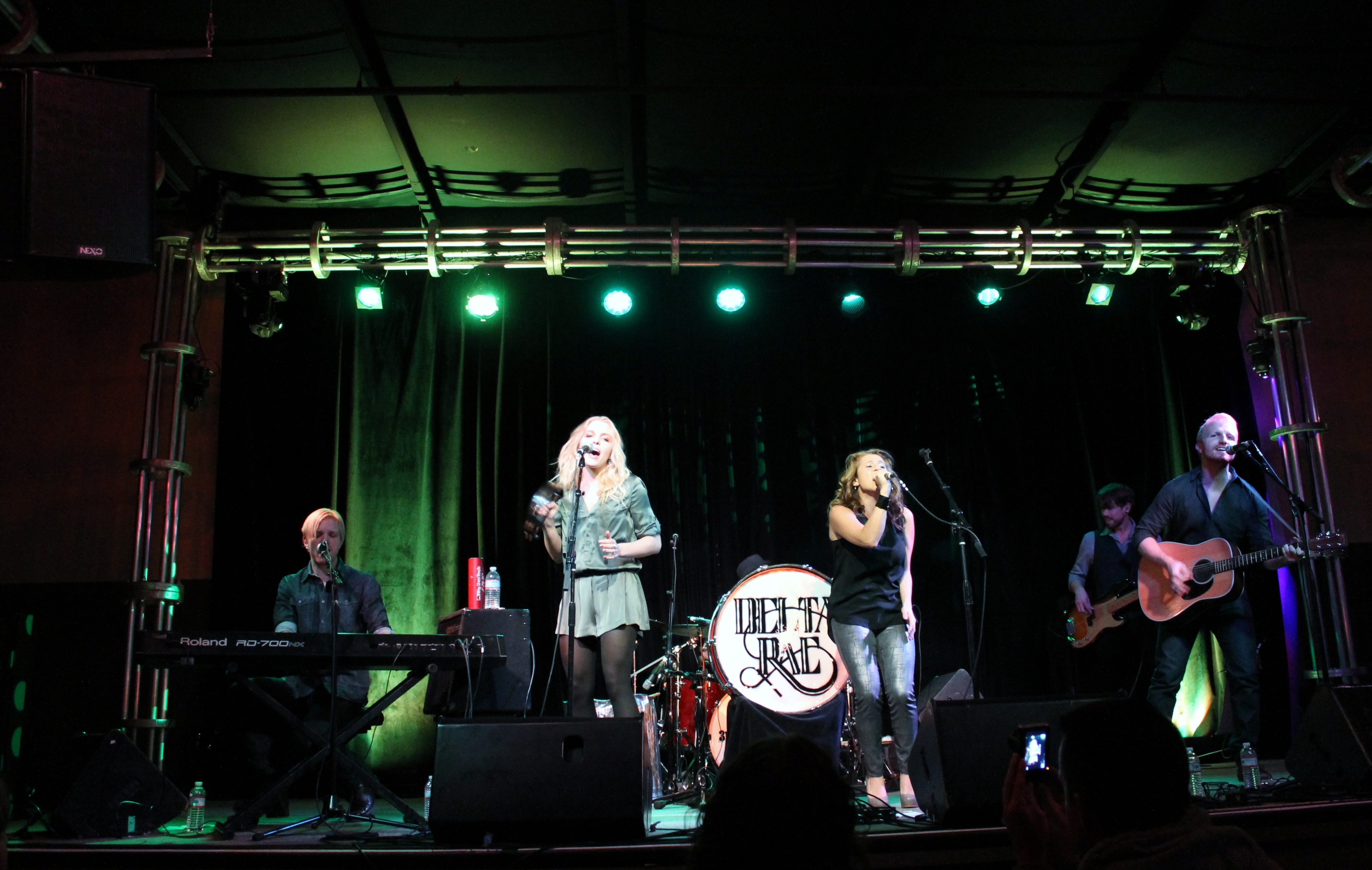 Delta Rae Performance at 3rd & Lindsley